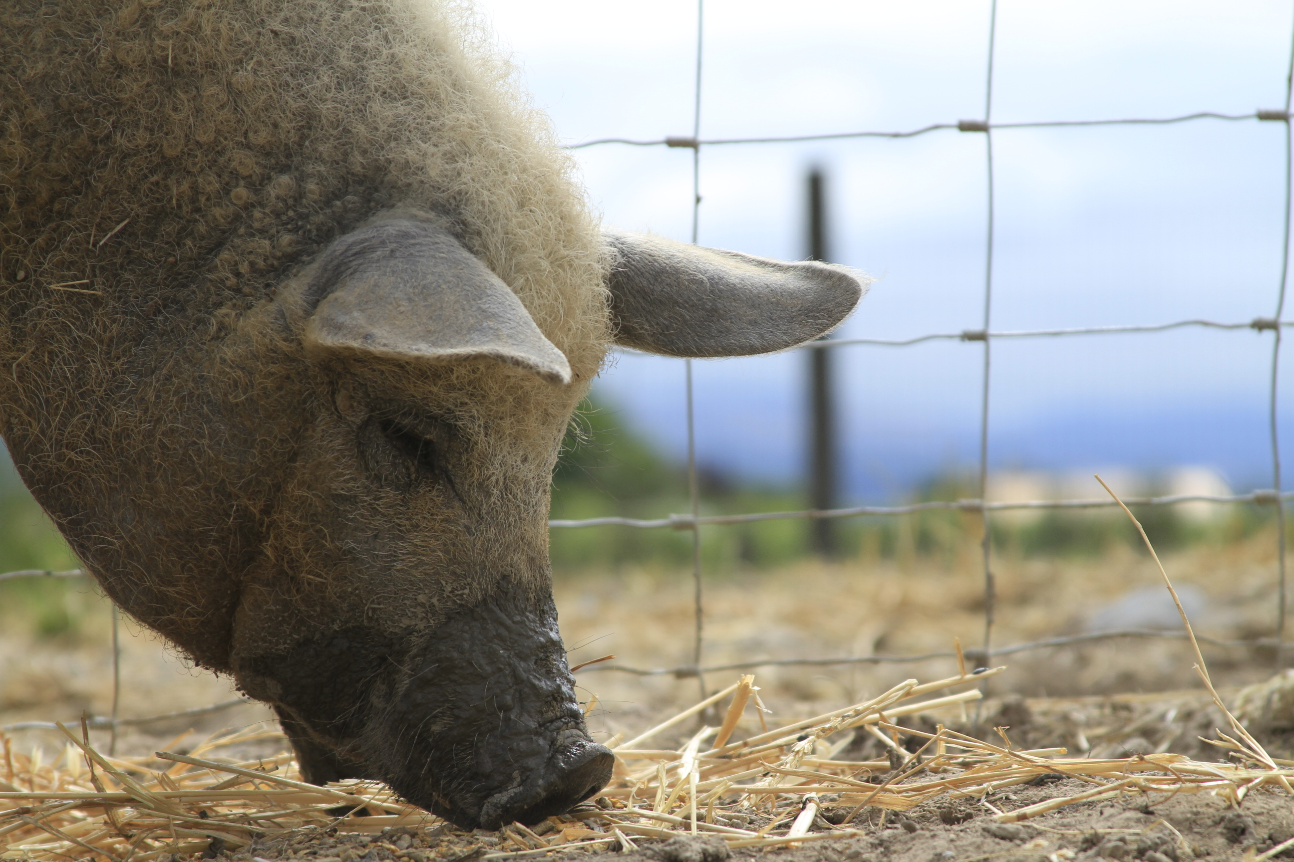 This is a blonde Mangalitsa pig on a farm in california.